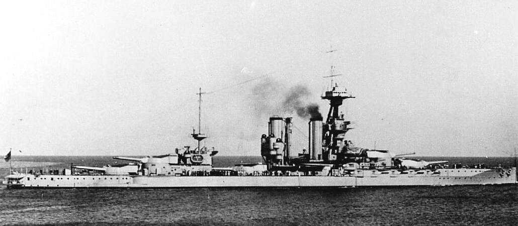 HMS Benbow (1913). From